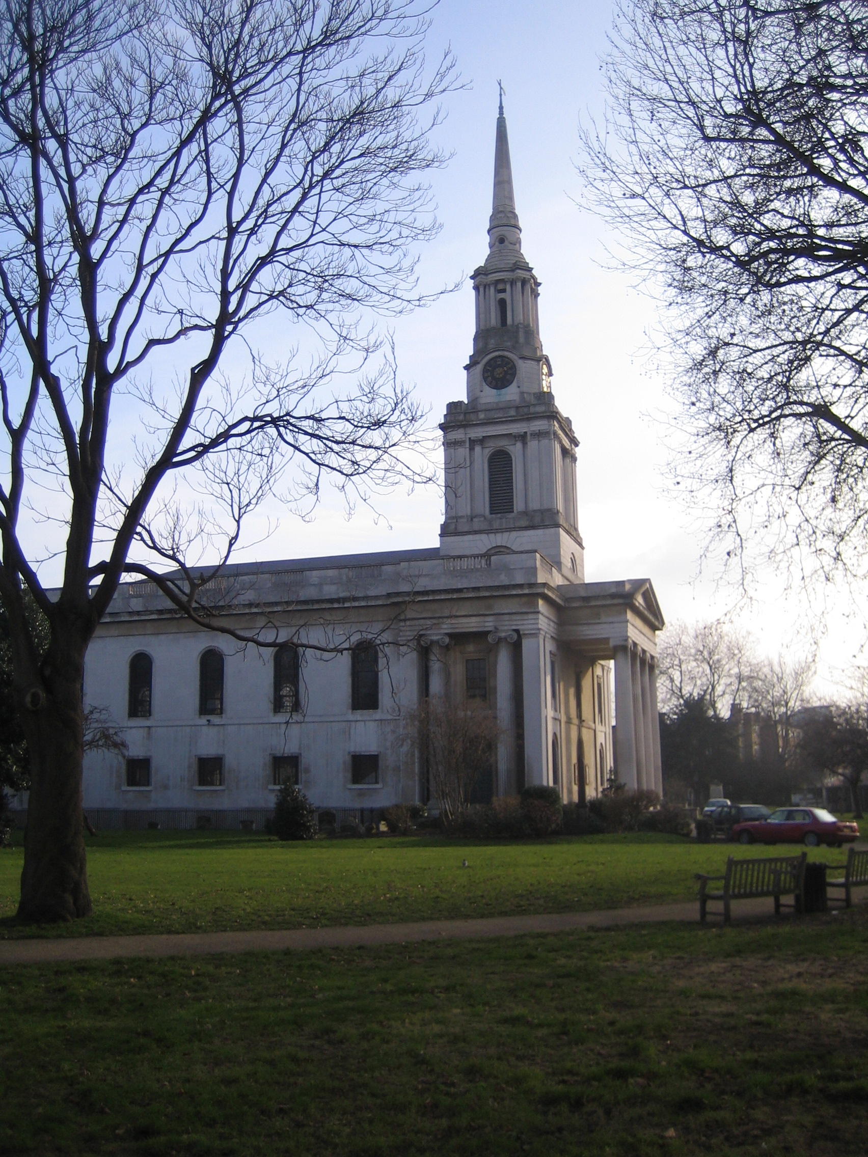 Image by Gordo Licence added 2006-06-07 Gordo 16:54, 7 June 2006 (UTC)